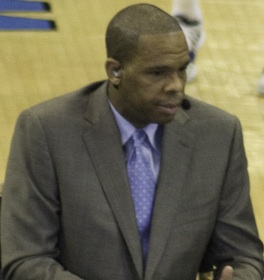 Hubert Davis on ESPN's College Game Day This file has been extracted from another file: ESPN College Game Day team.jpg